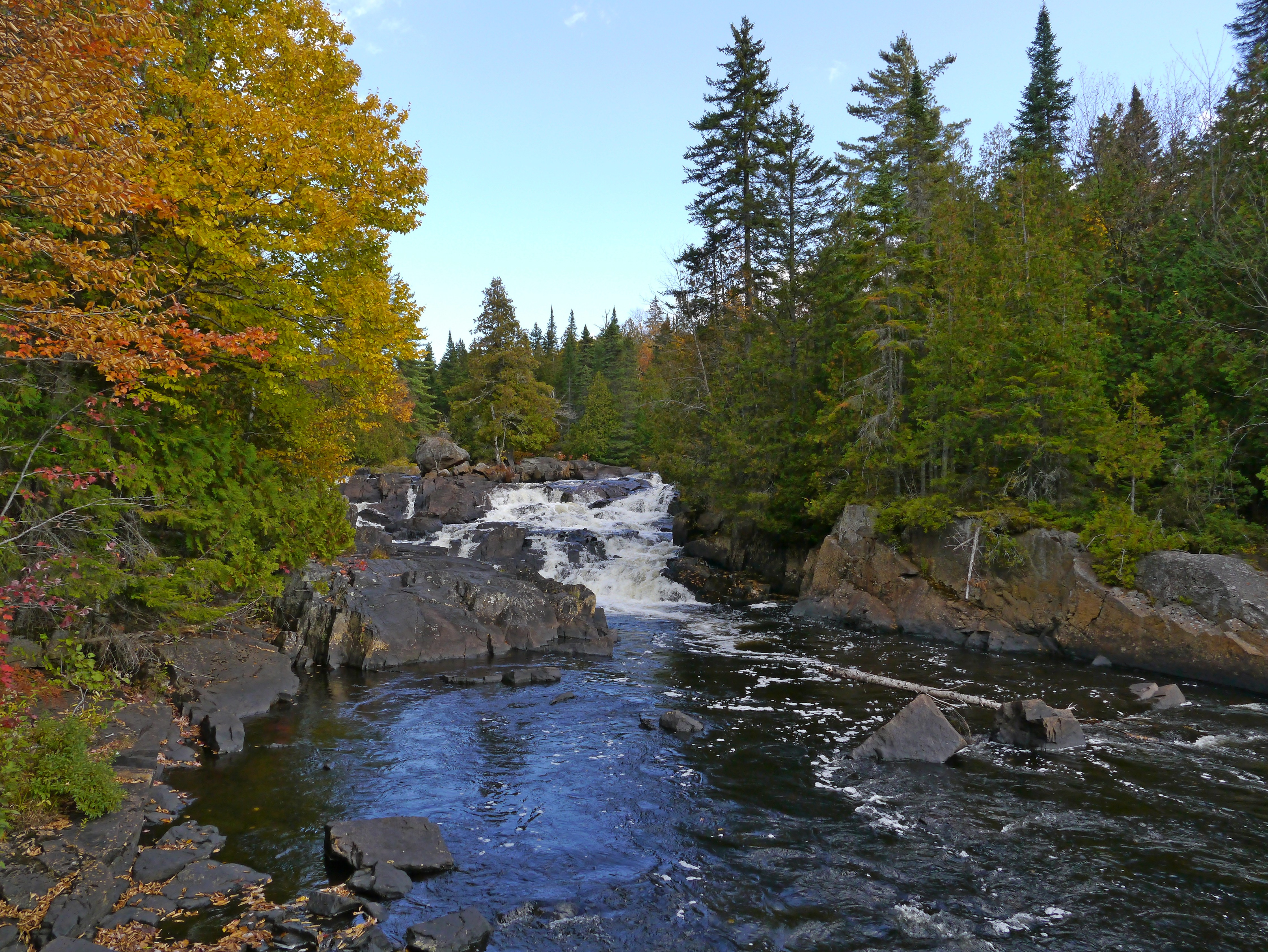 Parc national du Mont-Tremblant